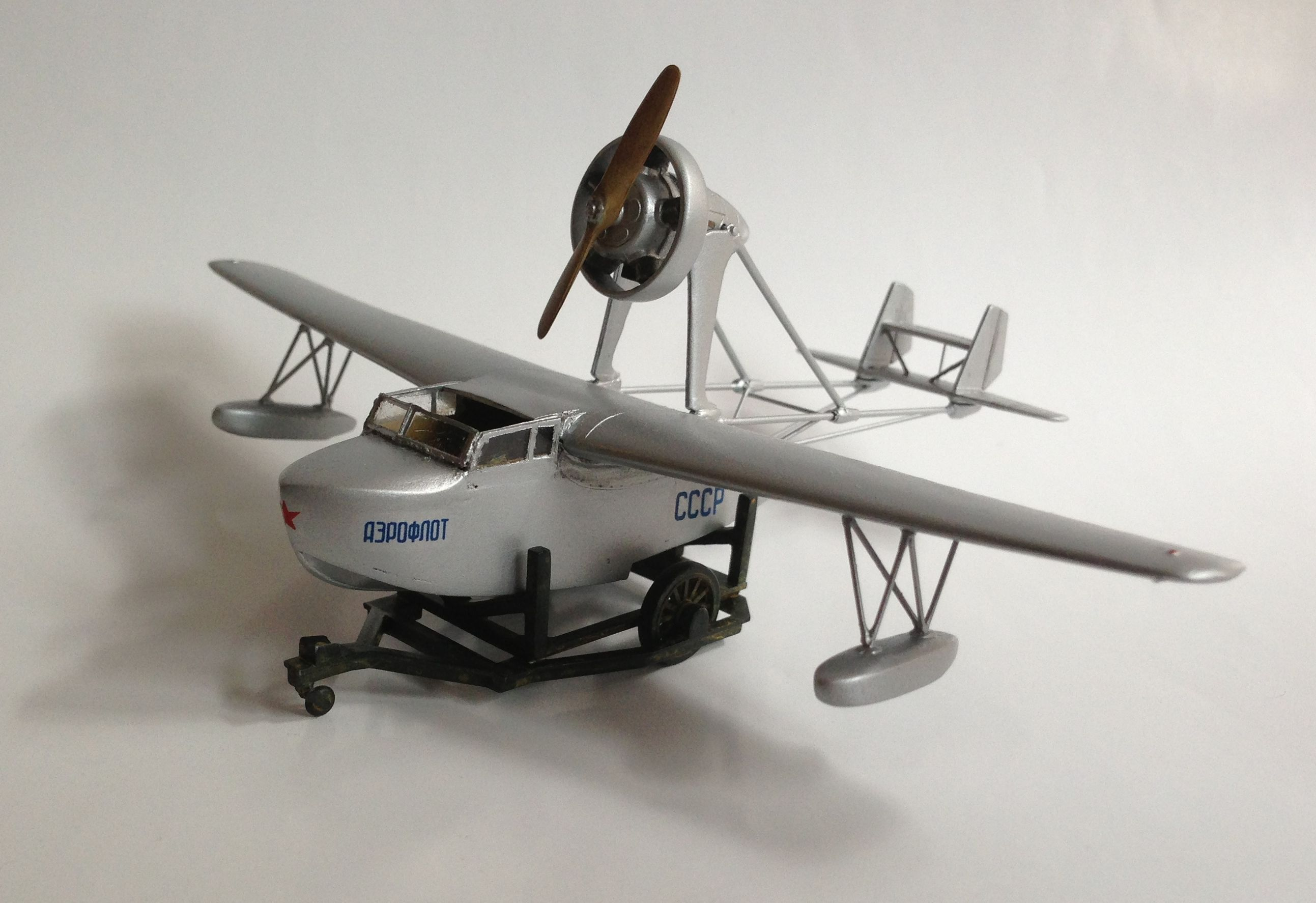 Amodel´s Chetverikov SPL, 1/72 scale.